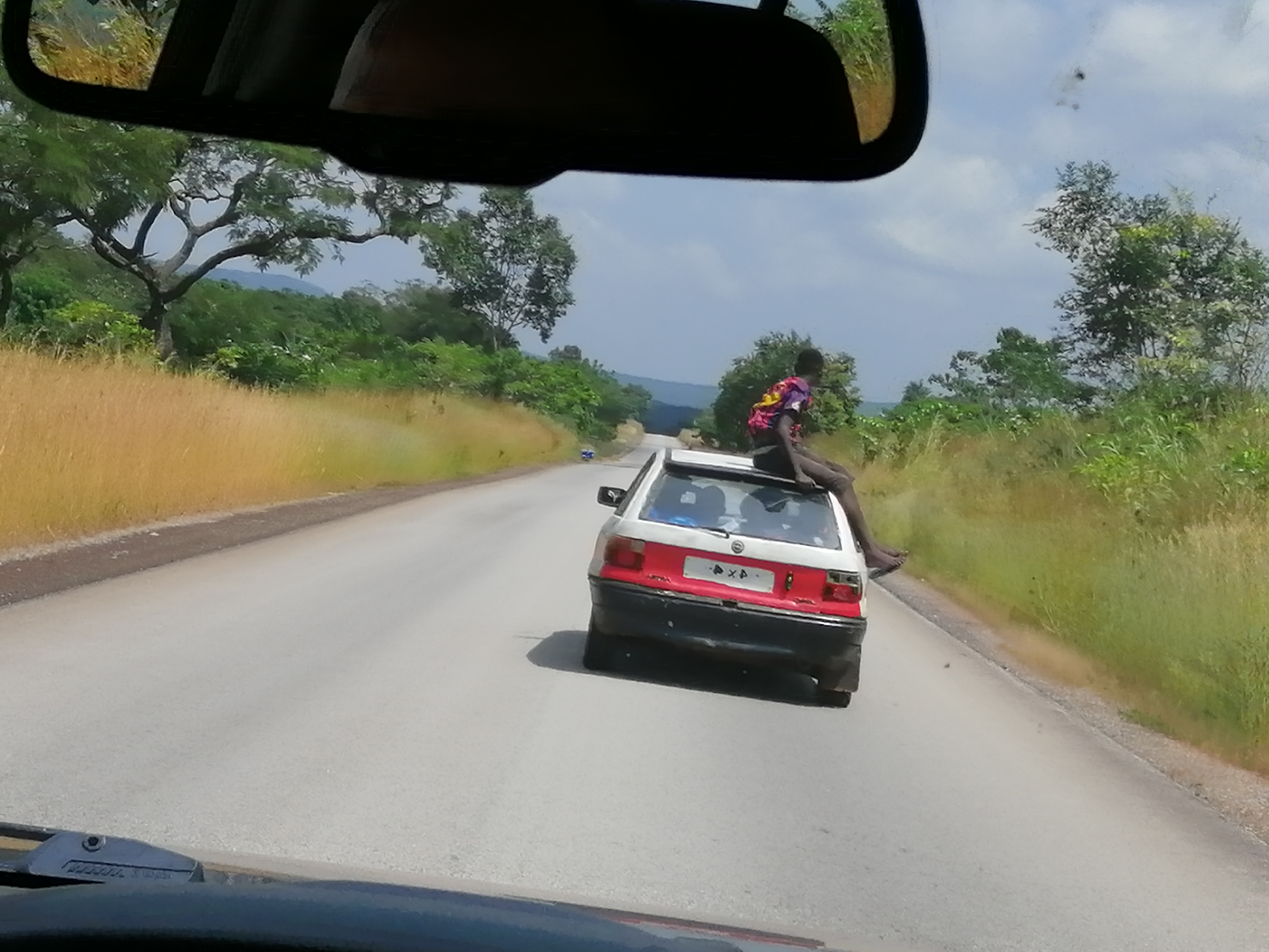 This is an image with the theme "Africa on the Move or Transport" from: Guinea